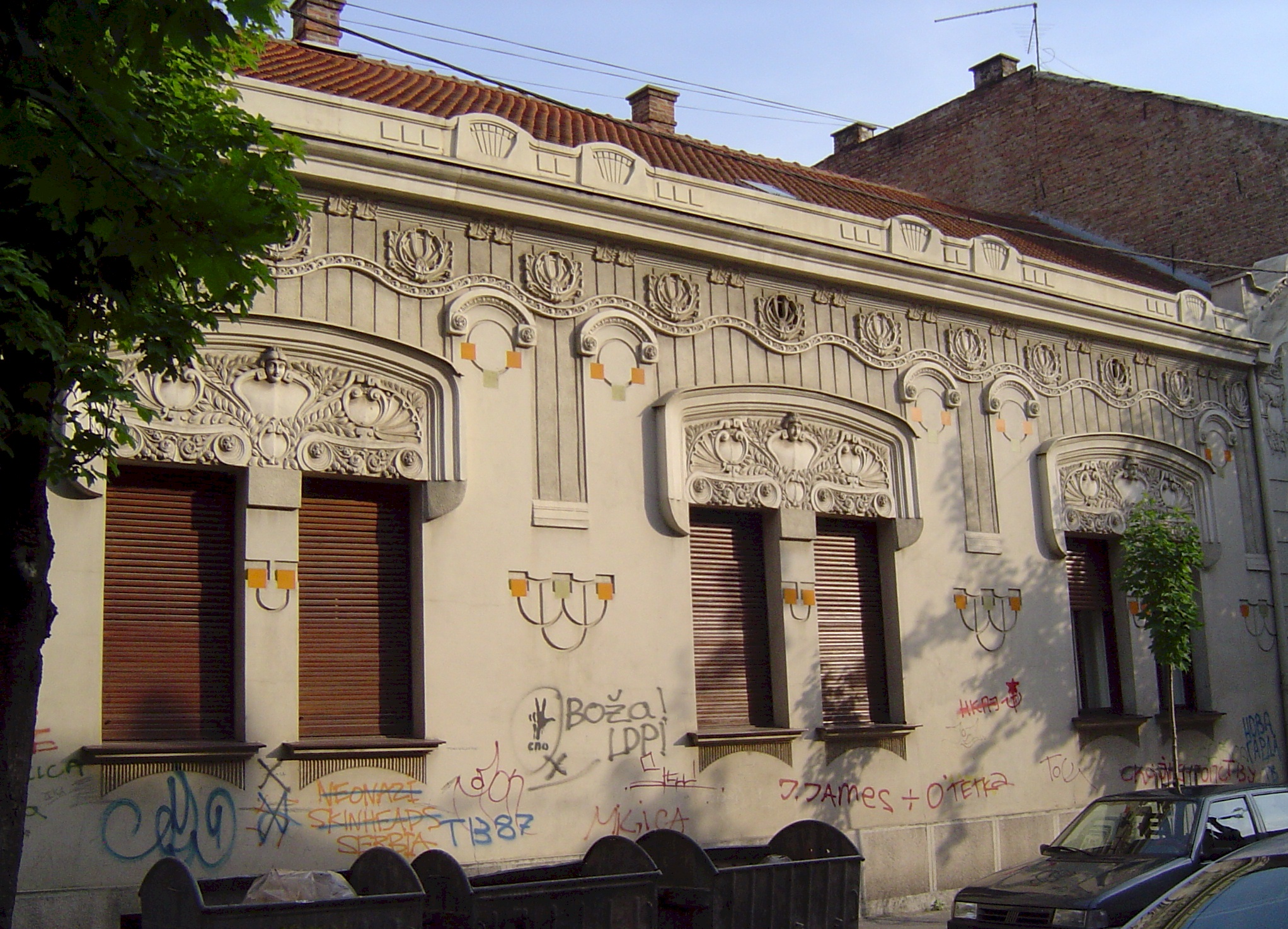 House in Dubrovačka Street in Zemun, reconstructed by Franjo Jenč in 1907.